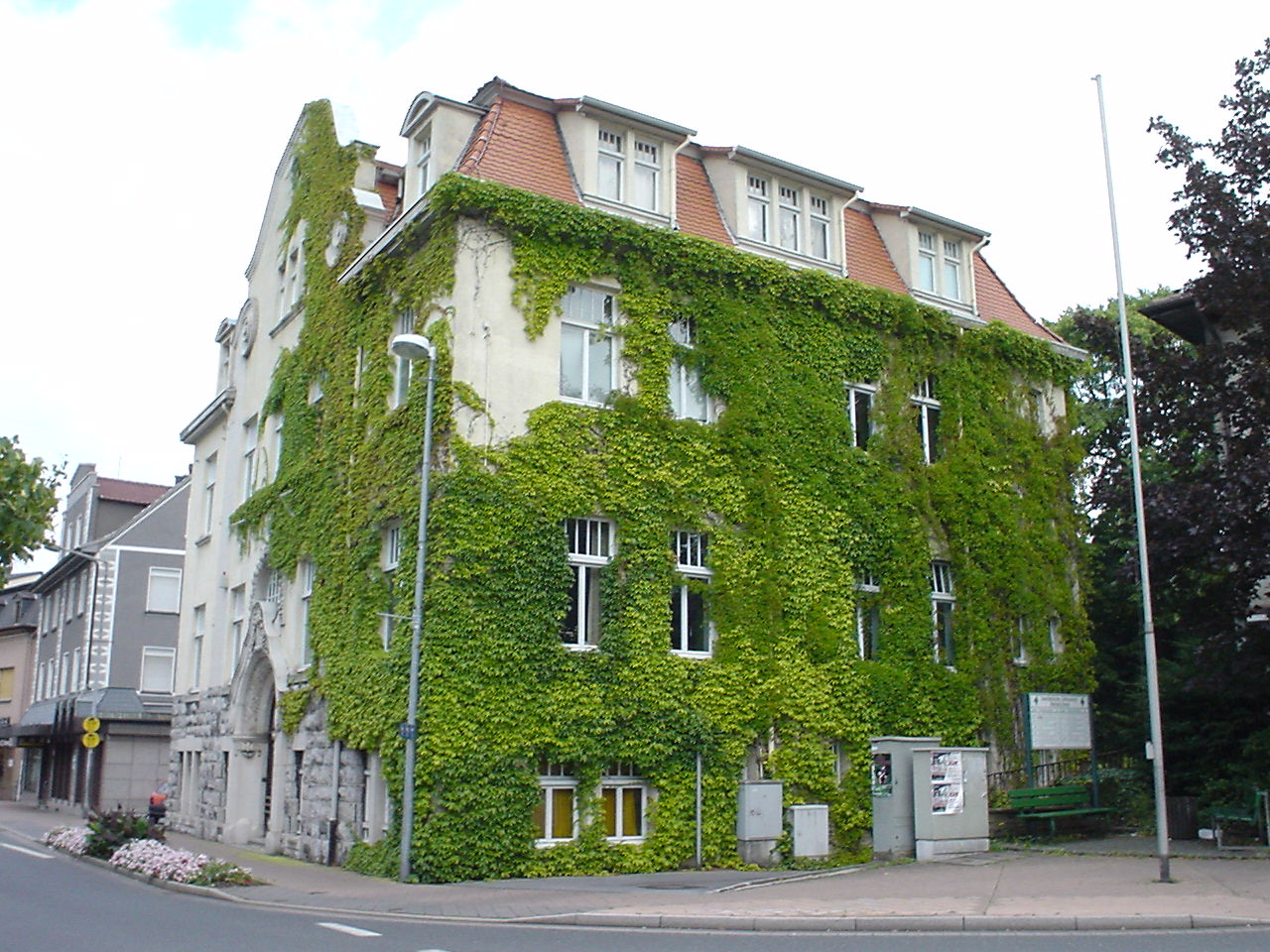 Amtshaus in Hemer, Germany, formerly the seat of the administration of the Amt Hemer. Today used by a public music school. Photo taken on August 15 2004 by User:Ahoerstemeier.